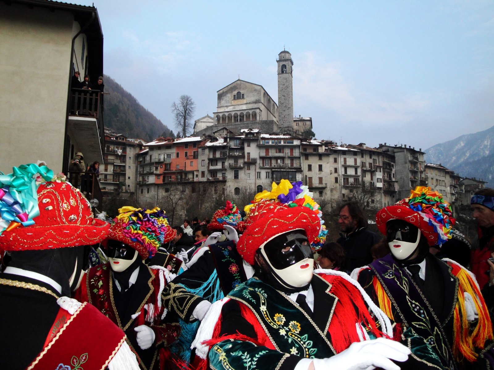 Carnival of Bagolino